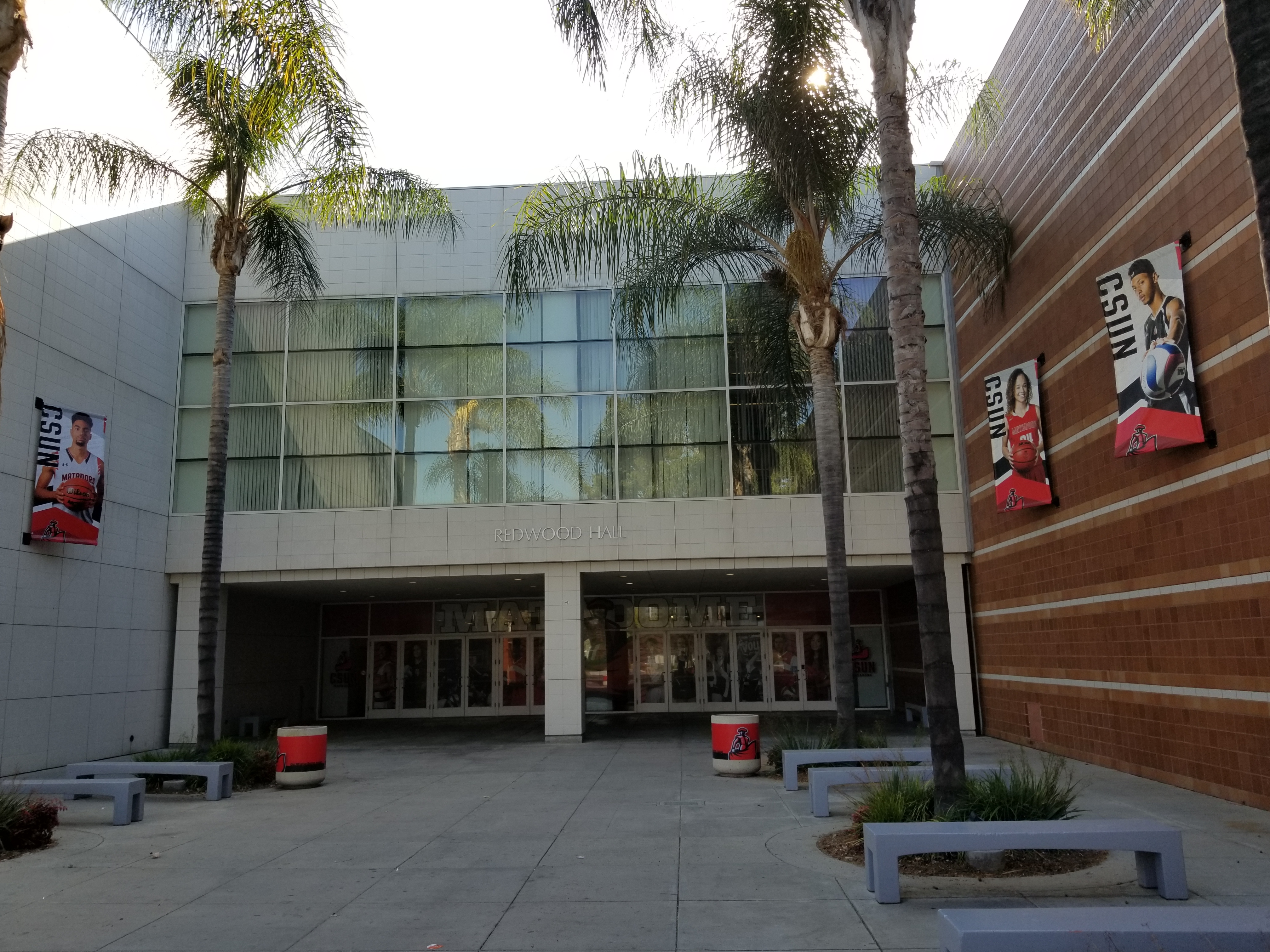 Matadome